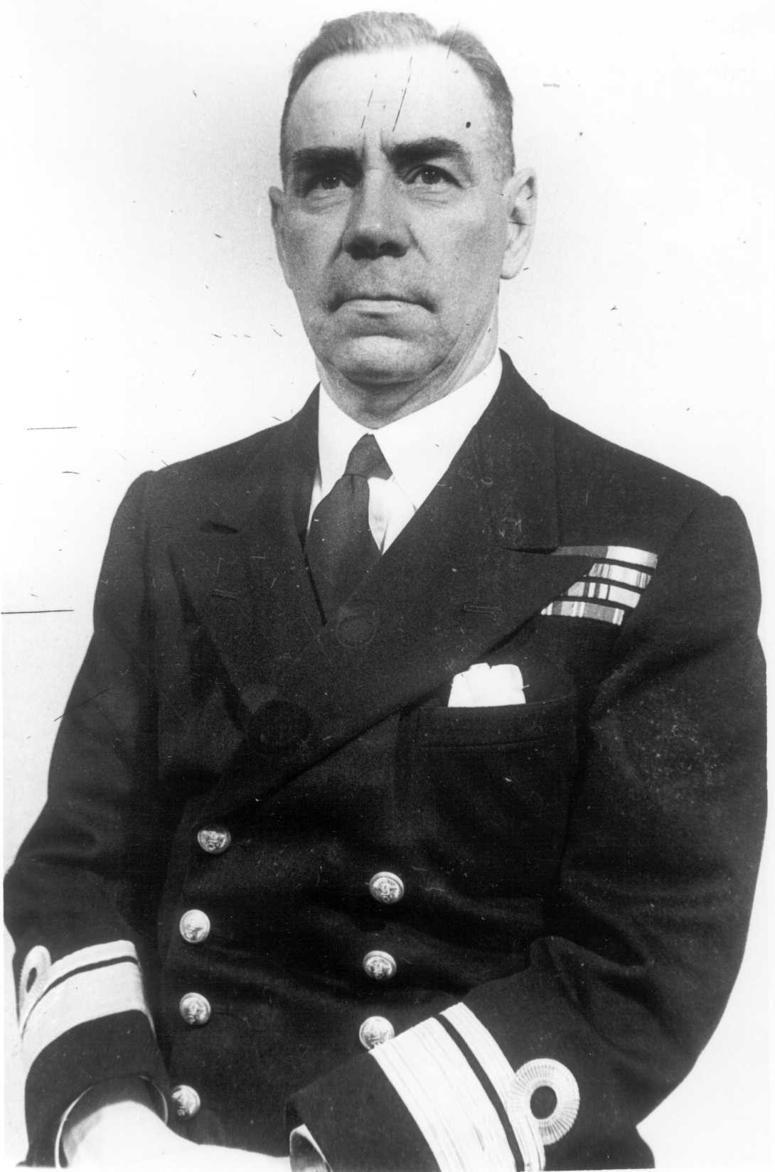 John Talbot Savignac Hall, first Commander-in-Chief, Royal Indian Navy after Indian independence